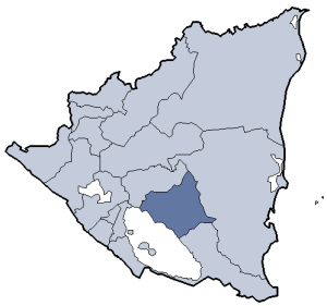 Division of Nicaragua Graphic by Keith Edkins.